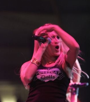 Ashley Roberts at the Tacoma Dome in Washington.